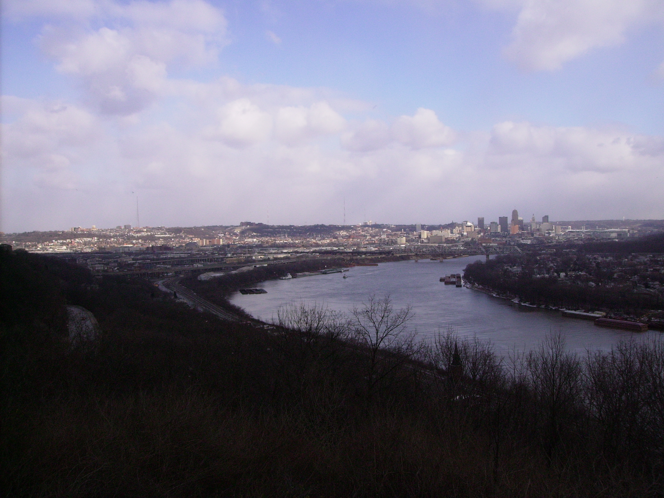 Cincinnati, OH taken from Mt. Echo Park, winter '06